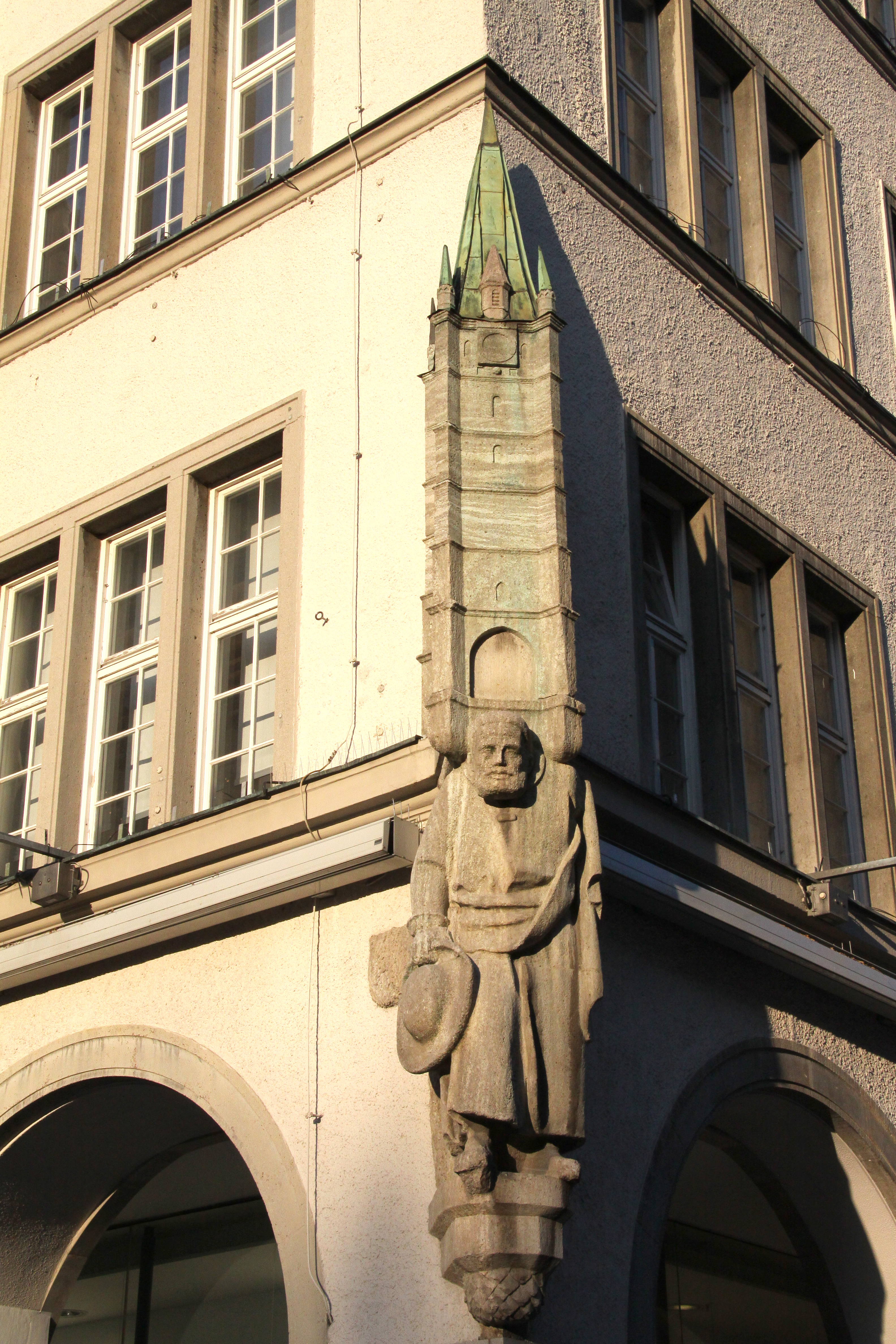 Kaufinger Tor, Munich, sculpture.